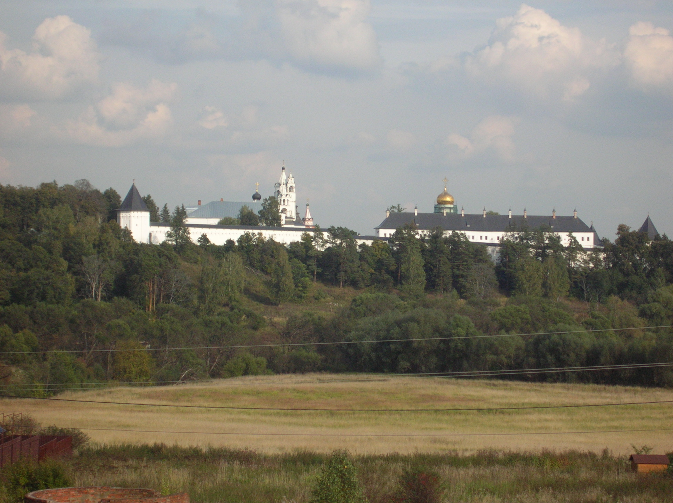 St. Savva Monastery in Zvenigorod, Russia.